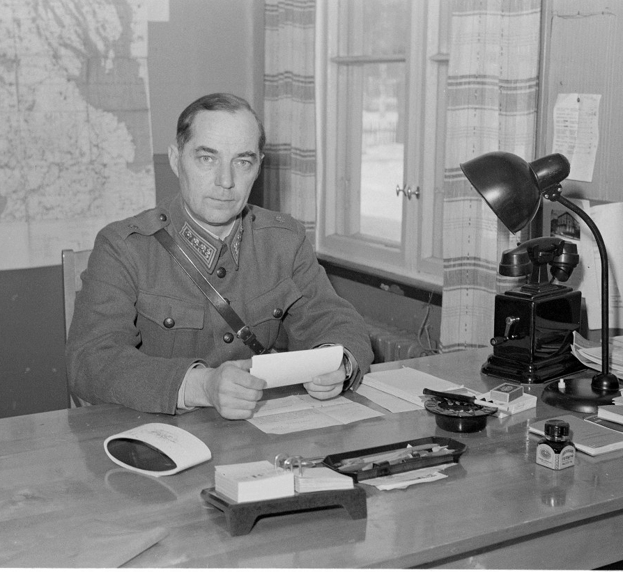 Photograph of the Finnish physician and officer Håkan Gadolin (1895–1963).